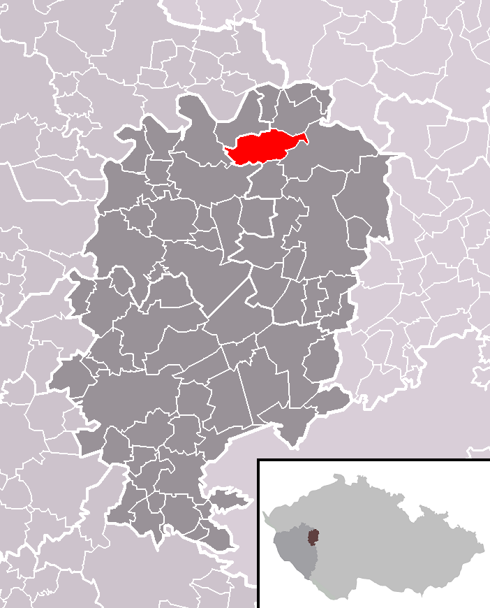 Location of Mlečice municipality within Rokycany District and within identical administrative area of Rokycany as a Municipality with Extended Competence.